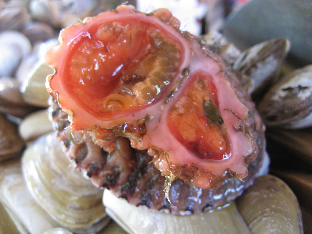 A piure (Pyura chilensis) at Maitencillo Chile, in the Valparaíso Region.